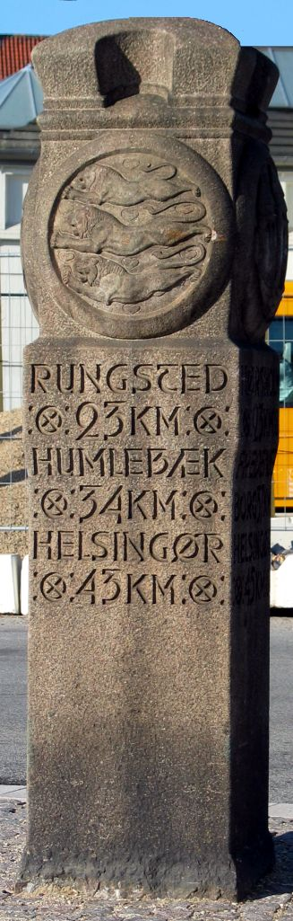 Østerport Railroad Station (Copenhagen, Denmark) Milestone (one of Copenhagen's zero milestones) outside the station symbolizing the old Eastern Gateway (port) out of Copenhagen Hans Andersen 2005.